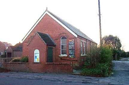 Methodist chapel and community centre, Newton upon Derwent, East Riding of Yorkshire, England, seen from the east